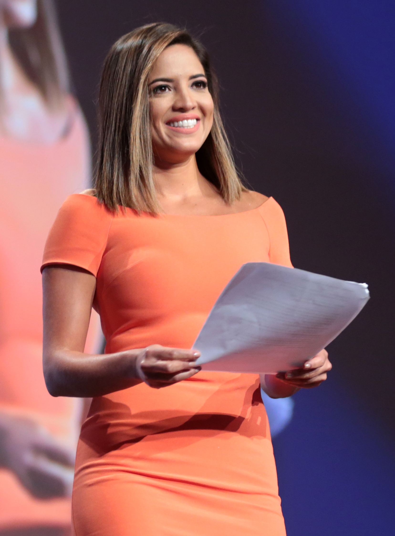 Pamela Silva Conde speaking at an event in Phoenix, Arizona.